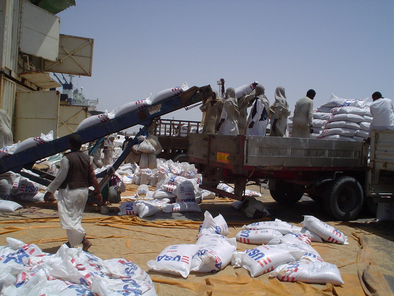 Caption: Offloading USAID wheat at Port Sudan – Bags of USAID-provided wheat are loaded on to trucks for transport to Darfur.